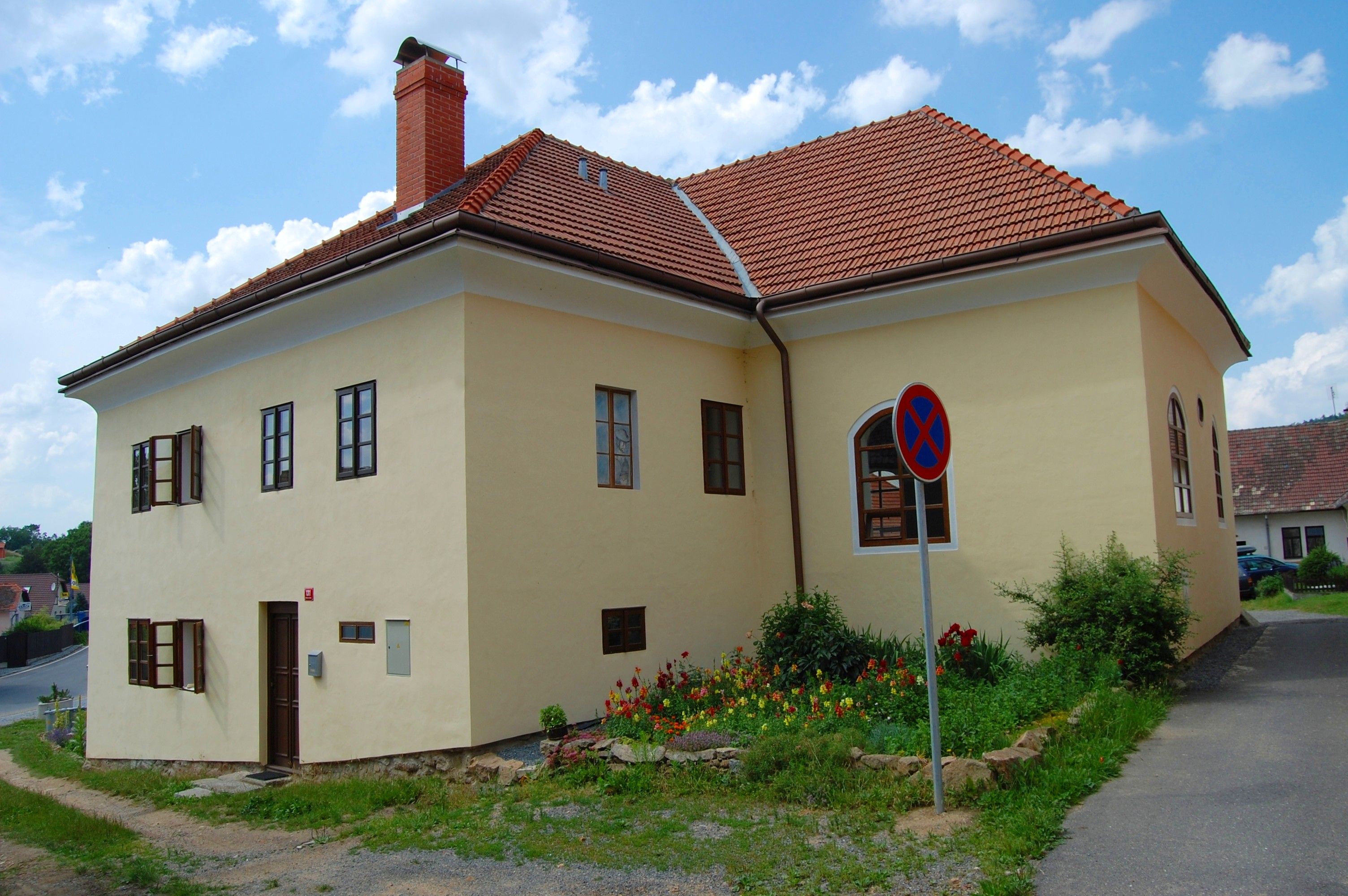 Synagogue in Kosova Hora